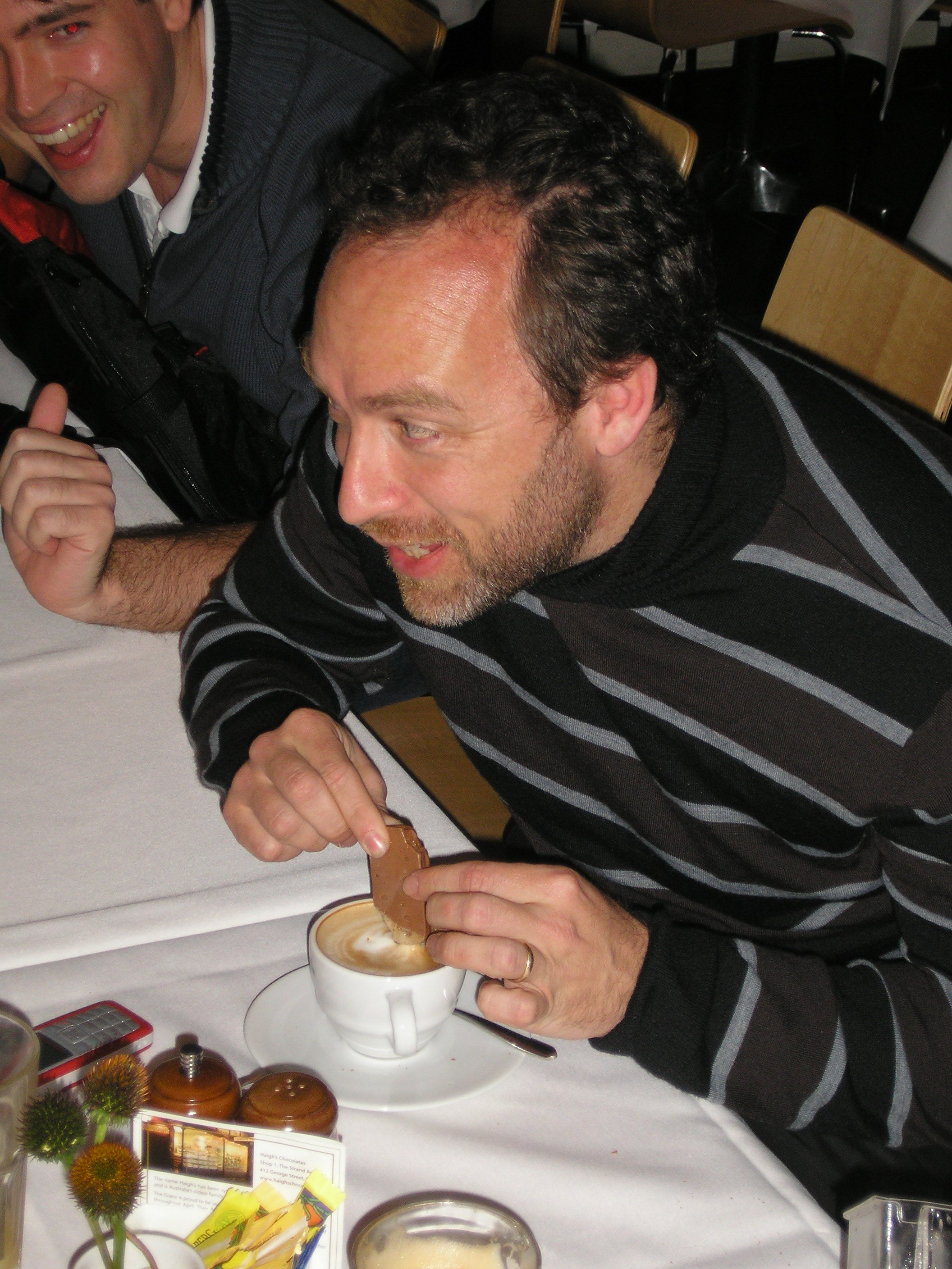 Jim Wales indulging in his first "Tim Tam Slam". This photo was taken at the restaurant at the Grace Hotel.